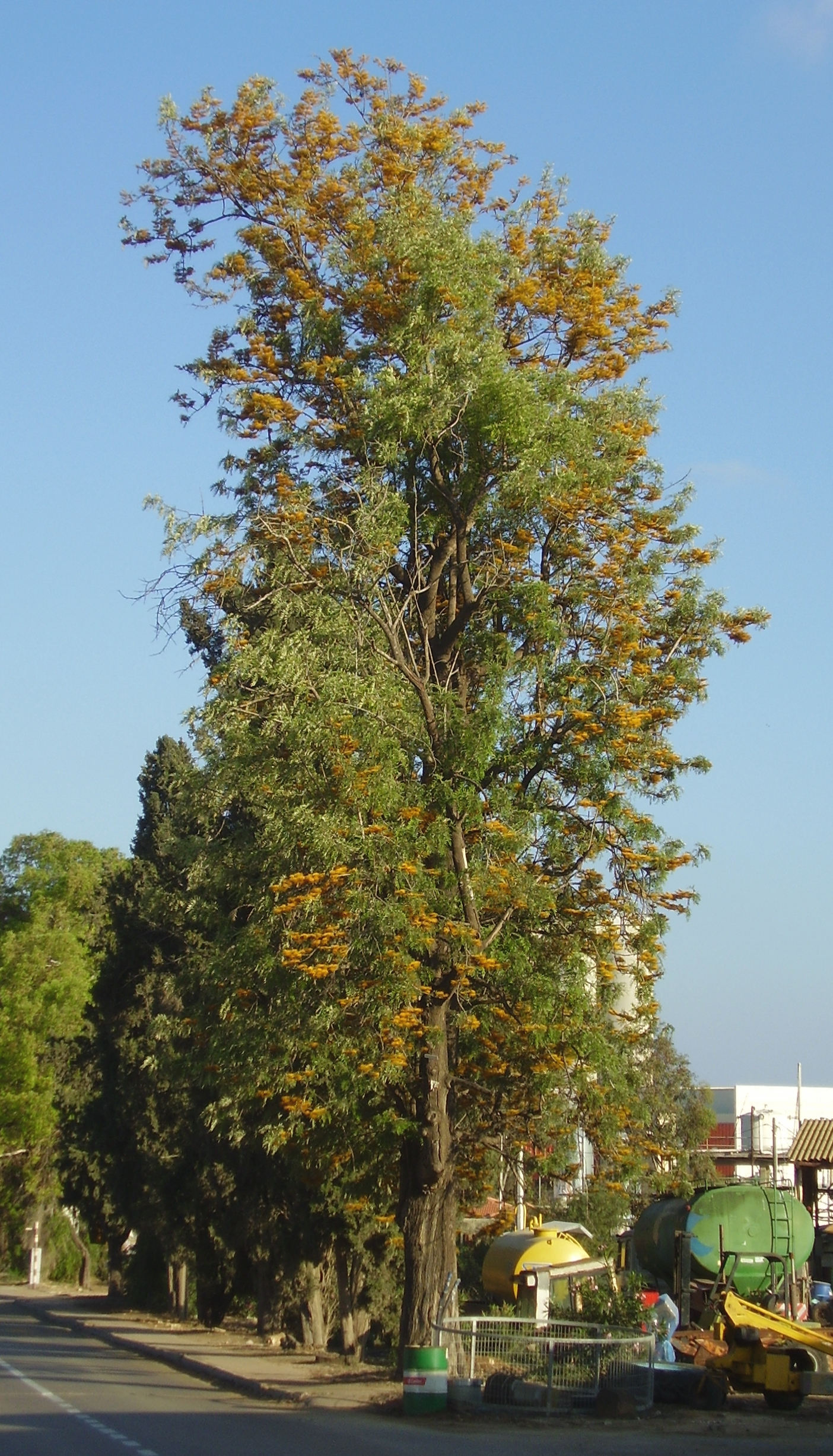 Flowering Grevillea robusta in Kibbutz Gan Shmuel; April 14, 2006. Aprox. 16 meters high.